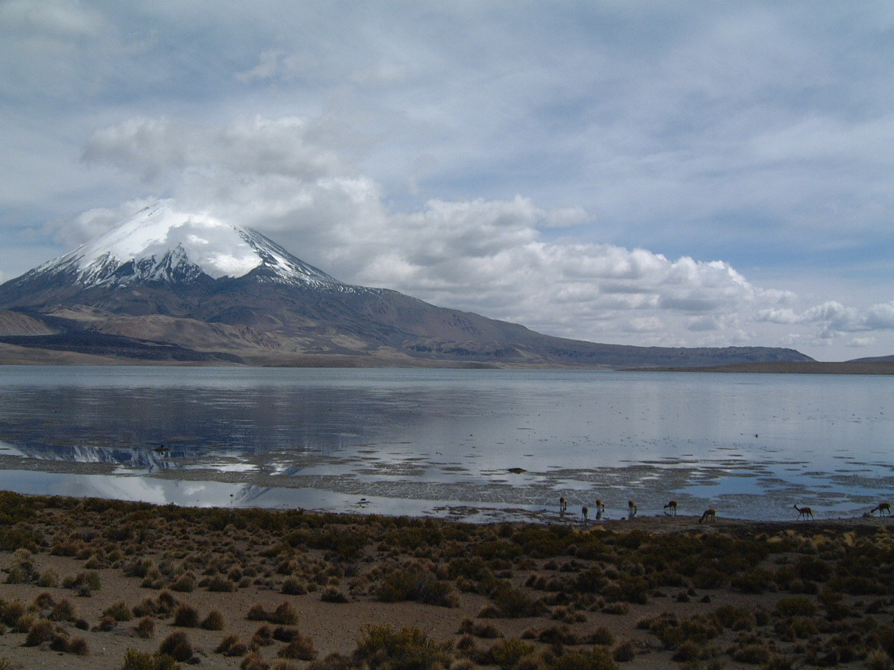 Vicuñas at Chungará Lake, Chile 12.11.2005 By * Herman Luyken